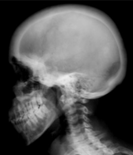 Renal osteodystrophy: Renal osteodystrophy. Loss of a sharp trabecular pattern that results in a ground glass density of the bone on radiograph of the skull.